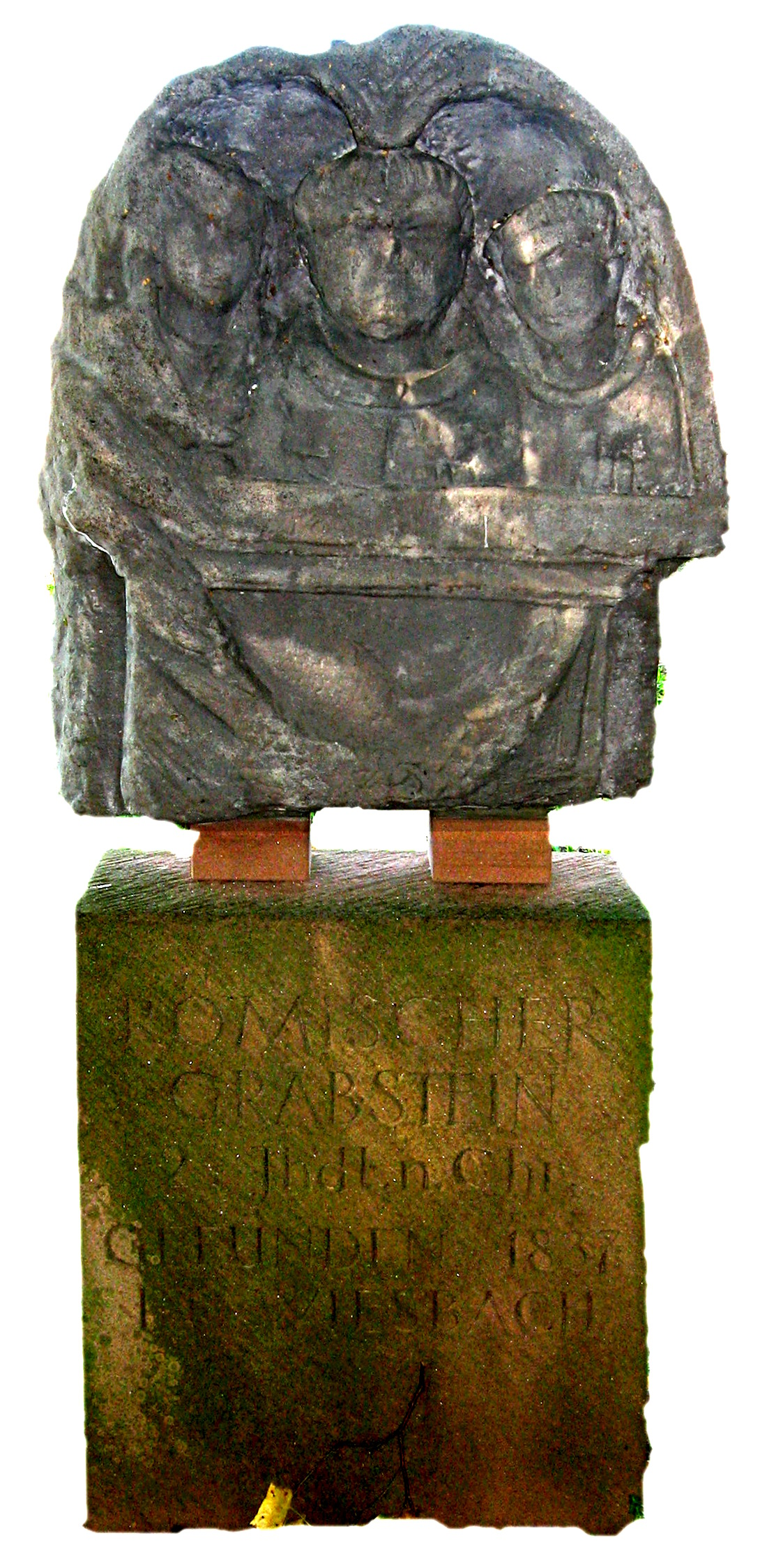 Ancient Roman Headstone near Wiesbach (Saar)